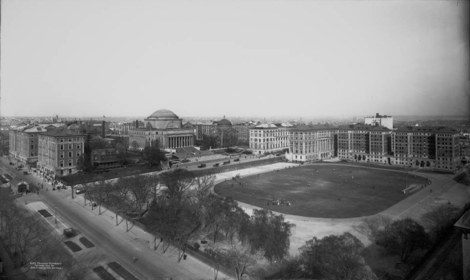 Photo of Columbia University's Morningside Heights campus, 1910. From left to right: Mathematics Hall, Lewisohn Hall, Earl Hall, Low Memorial Library, Buell Hall, St. Paul's Chapel, Kent Hall, Hamilton Hall, Hartley Hall and Wallach Hall.